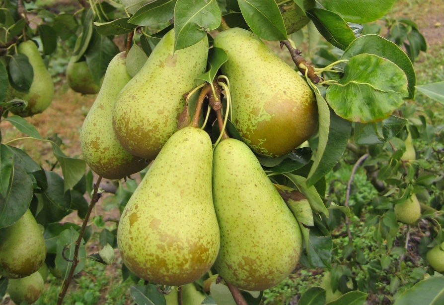 Pear fruit, Pyrus communis cultivar 'Conference'